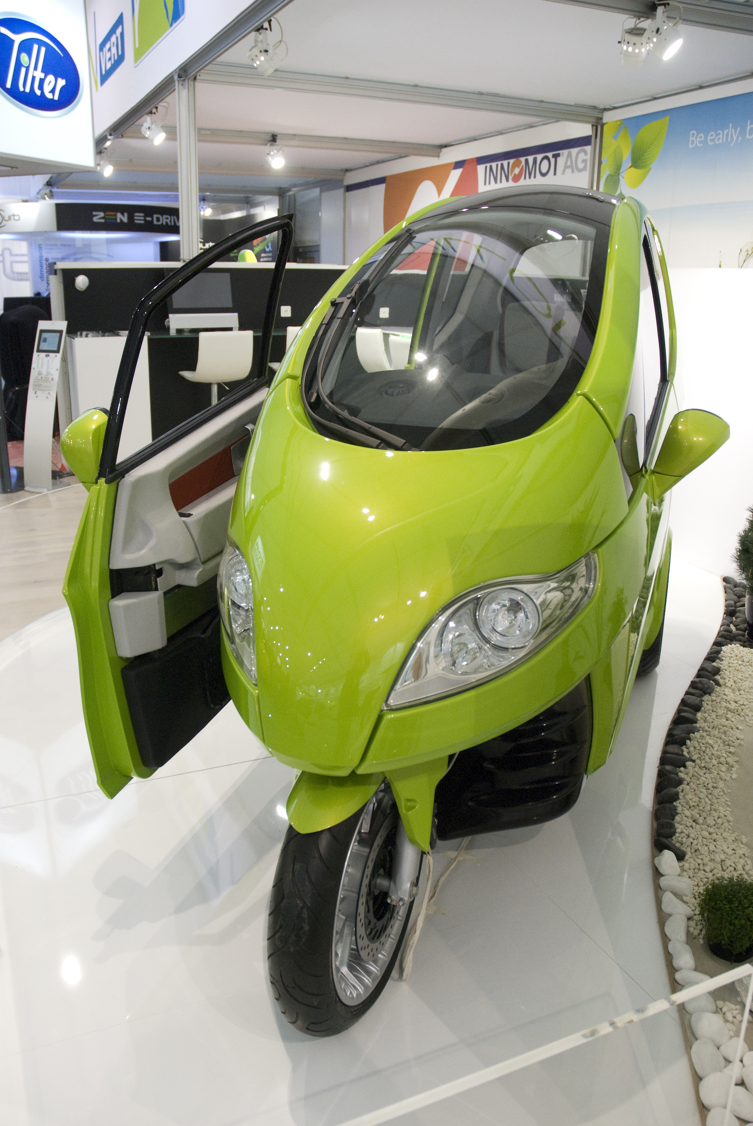 Geneva Motorshow 2011, Tilter front